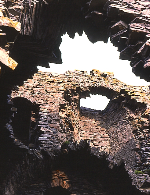 Auchindoun Castle Ruined archways inside the castle. Note that it is dangerous to enter the ruins because the floors are not solid and there is a risk of masonry falling from the walls. Do as I say, not as I did :-)